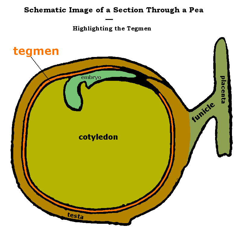 Schematic Image of Section Through a Pea — Highlighting the Tegmen.